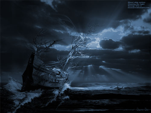 Ghost ship series